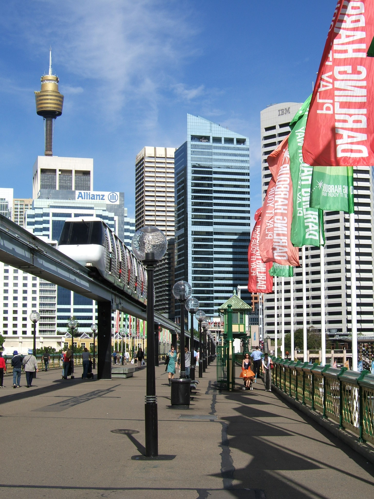 Flags line Pyrmont Bridge, a pedestrian and Sydney Monorail crossing of Darling Harbour near central Sydney. The still-operational swing span was one of the first to be electrically powered. Picture taken by wurzeller on 27 Nov 2005 and released under terms of GFDL licence Category:Images of bridges in Australia Category:Images of Sydney